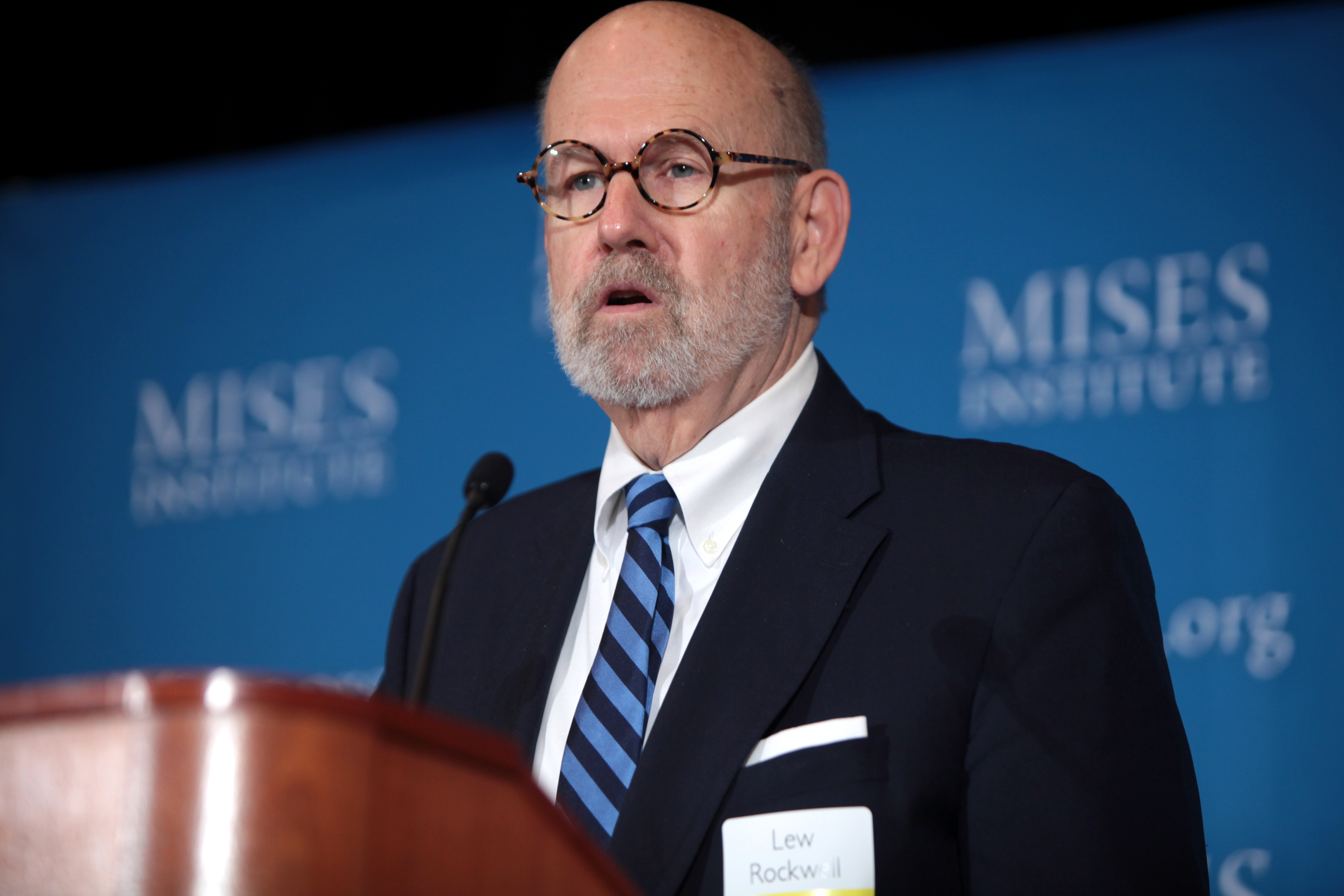 Lew Rockwell speaking at a Mises Institute event in Phoenix, Arizona.